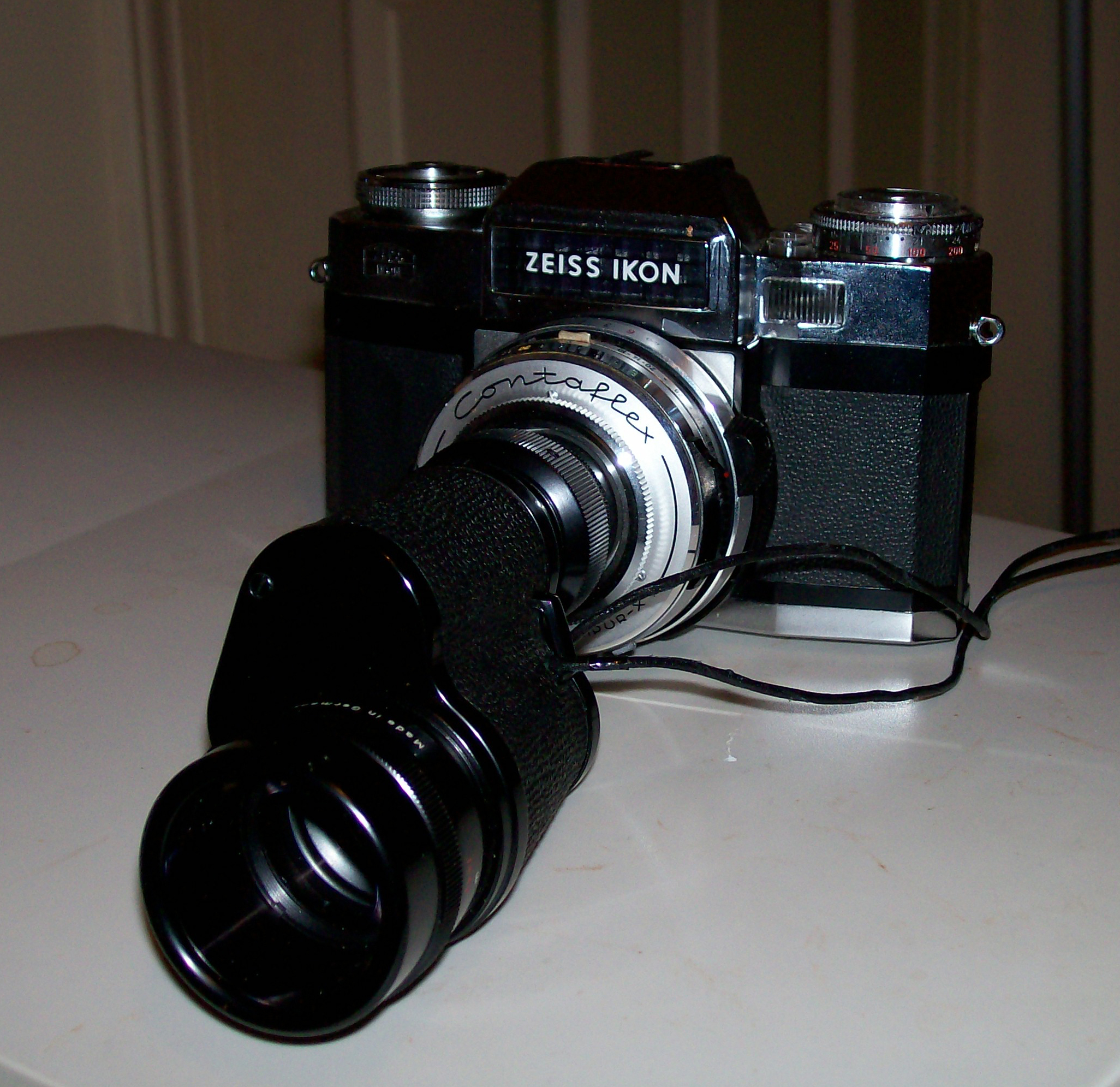 Contaflex SuperB with Zeiss 8x30B monocular康泰单反相机+蔡司8x30B 望远镜